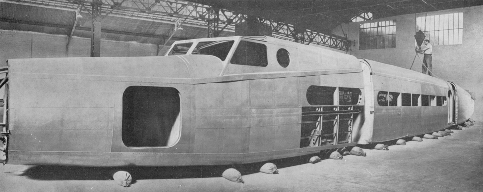 Aircraft Dewoitine D.333 under construction. Assembly of the fuselage.